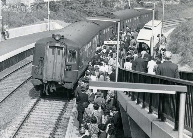 Botanic station, Belfast (2). See 619859. Botanic station, on the re-opened Belfast Central line, proved to be more successful than expected. The platforms were short and could only take a six-car set. The shelters for waiting passengers were basic. Overcrowding is evident as an evening peak train from Bangor to Portadown calls.